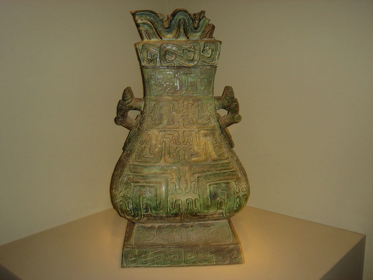 A Chinese Eastern Zhou Dynasty bronze fang hu vessel, which served as a ritual wine container, 8th century BC. From the Freer and Sackler Galleries of Washington D.C.